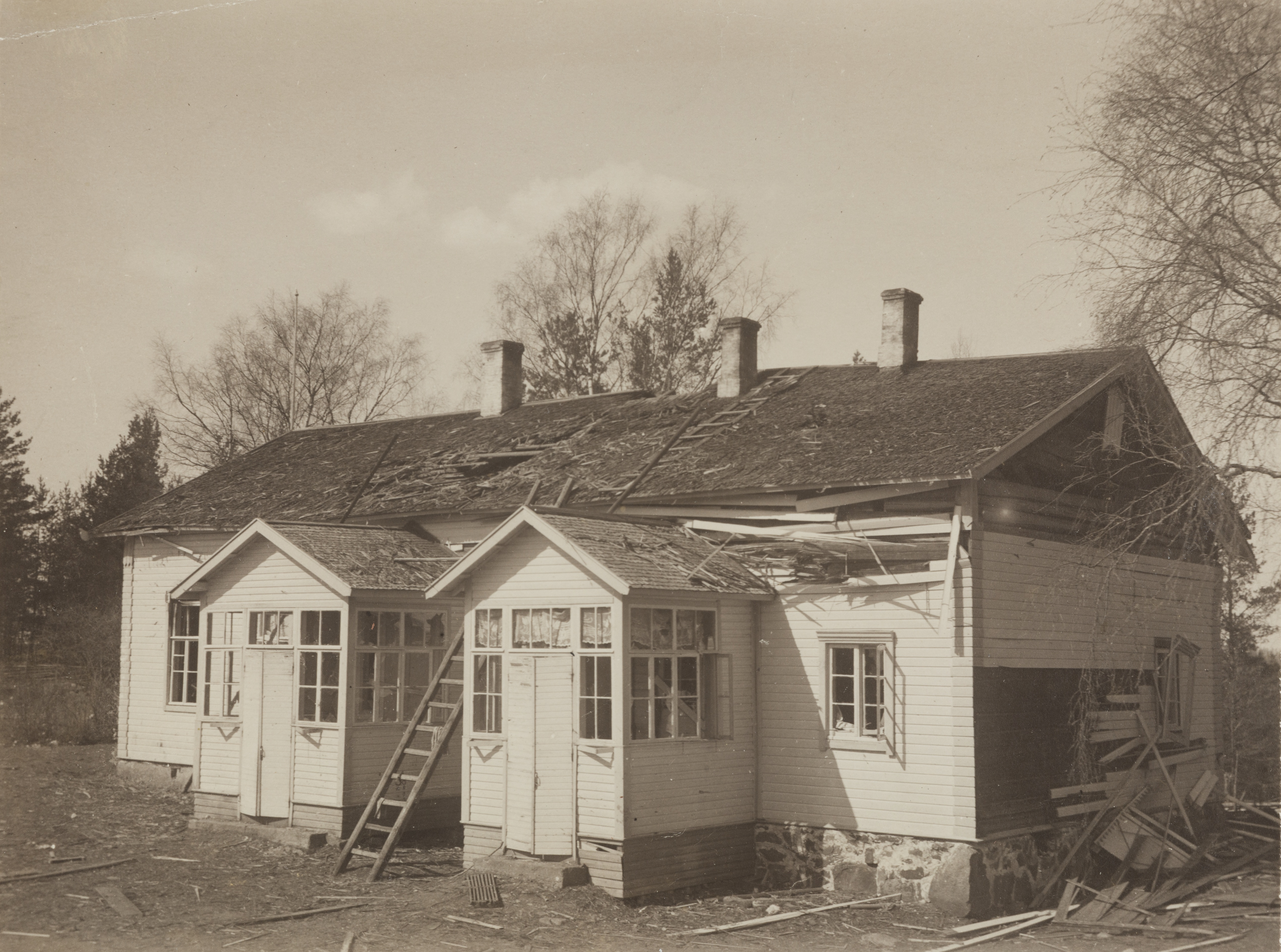 Savitaipale school after the 1918 Finnish Civil War. The school served as a Red Guard base and was damaged by a White artillery fire.